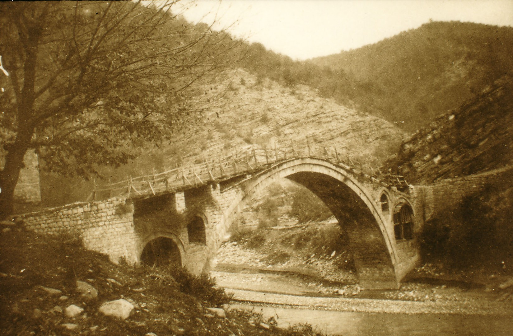 260 Albania. The Luma Bridge (Ura e Lumës) in the Drin valley, 1905